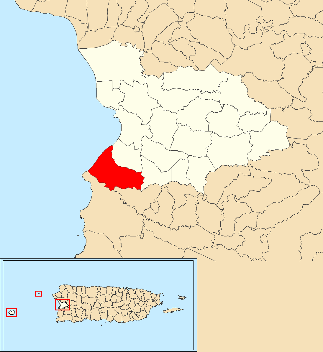 Guanajibo, Mayagüez, Puerto Rico locator map